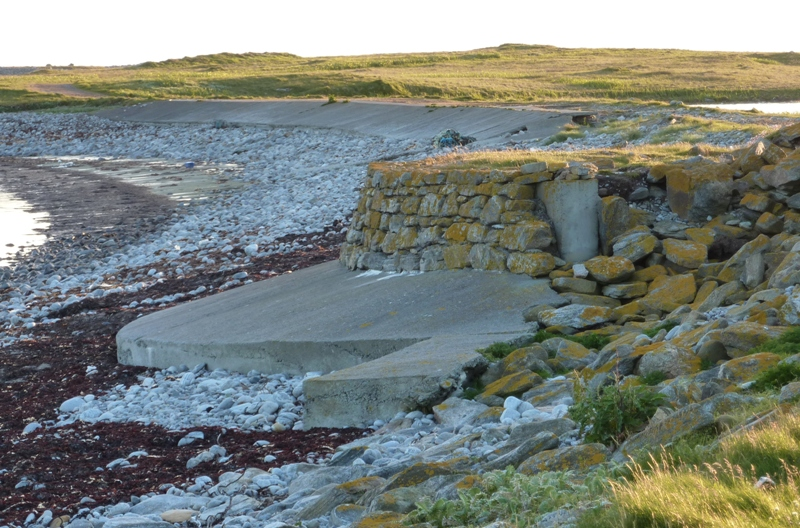 Dun Vulan, South Uist, Outer Hebrides, Scotland - modern sea wall from the east